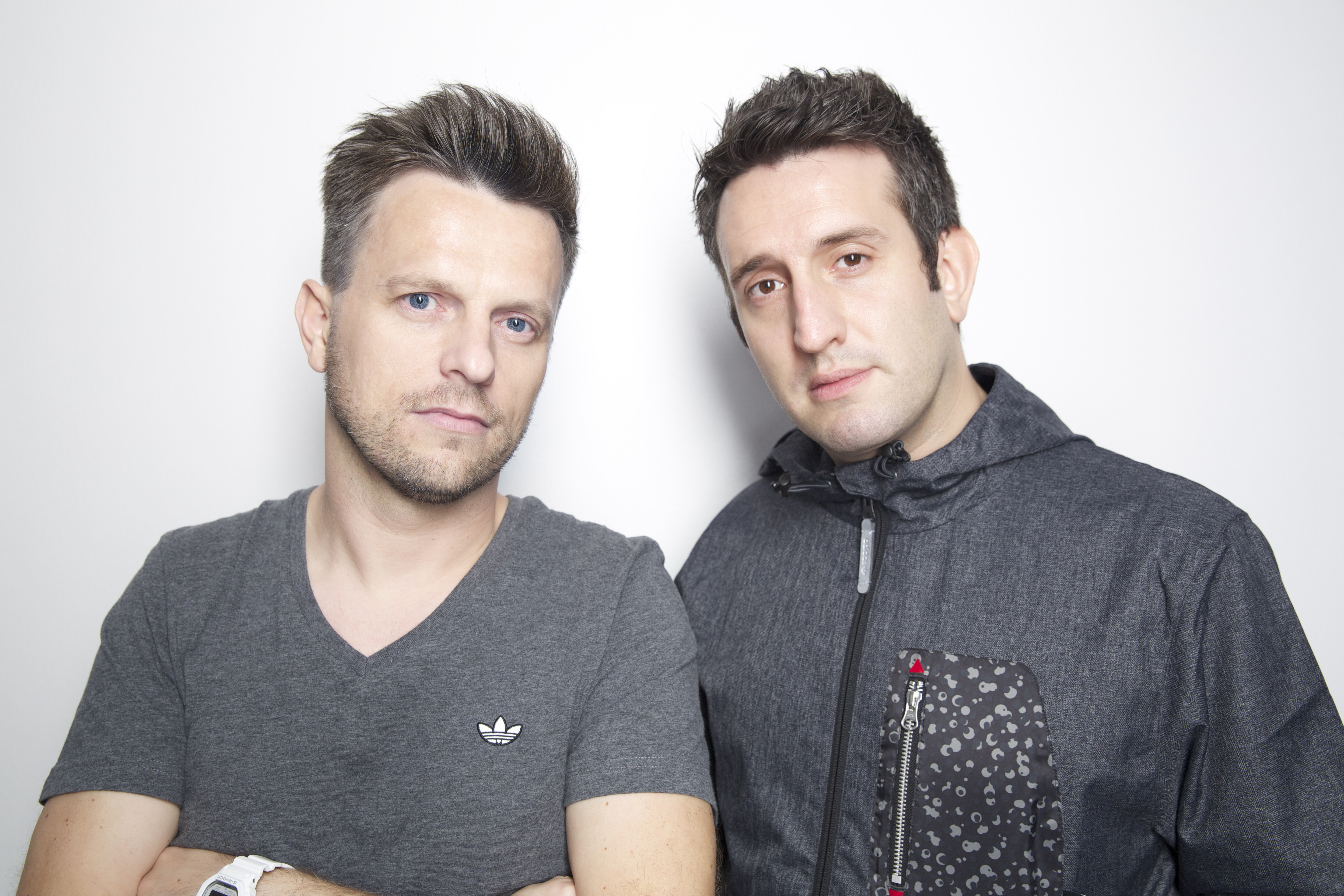 Hollaphonic press shot 2014